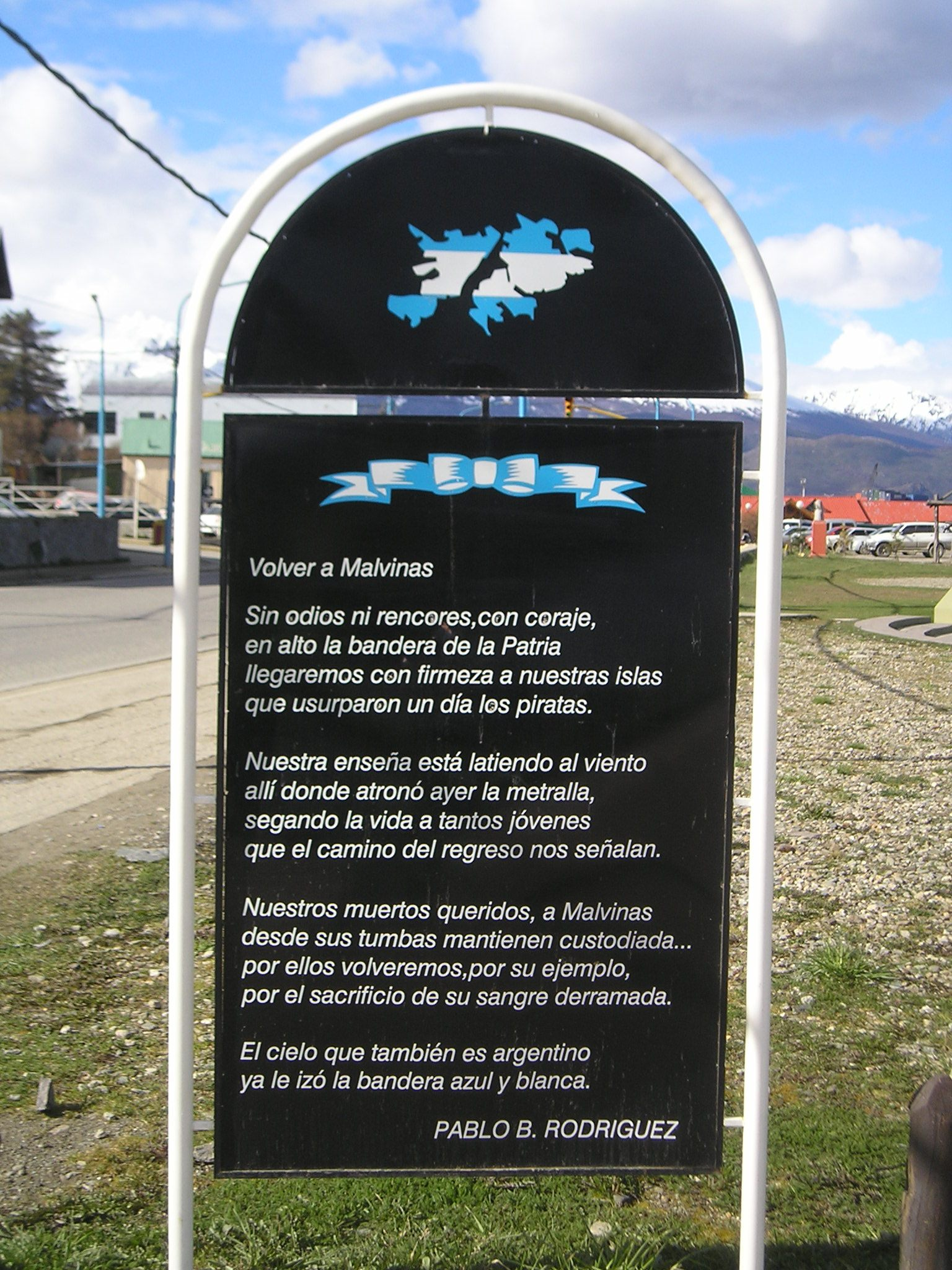 Ushuaia, Argentina - a poem about Argentinian return to ISLAS MALVINAS